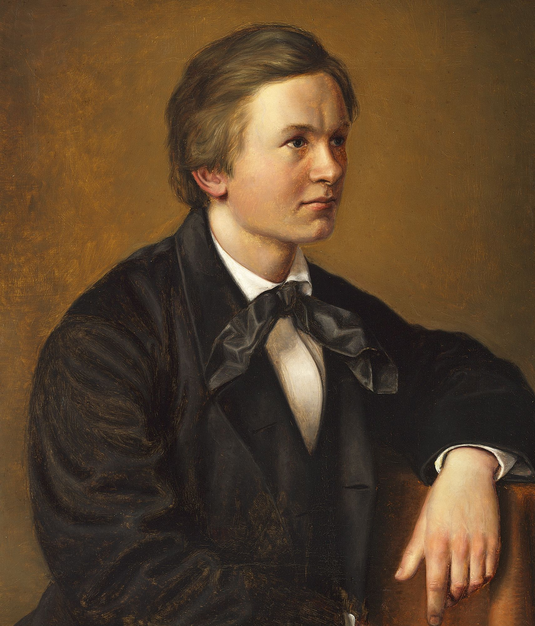 In 1863, Wenzel Tornøe had been studying at the Royal Danish Academy of Fine Arts for two years, and he was asked to tutor Kristian Zahrtmann, who wanted to get in, and who later succeeded in getting admitted. Tornøe was 19 at the time, and Zahrtmann was 20.